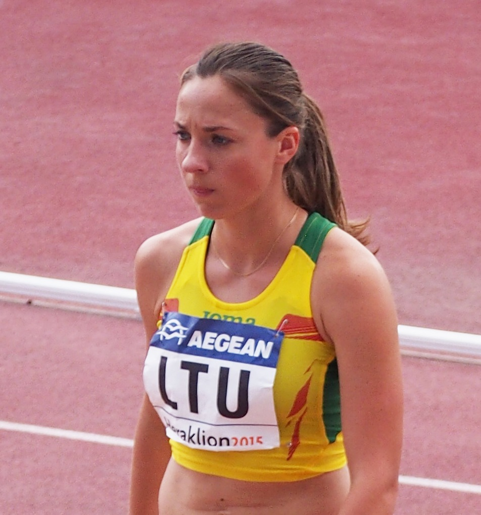 Natalija Piliušina before the start of the 1,500 m race at 2015 European Team Championships First League.